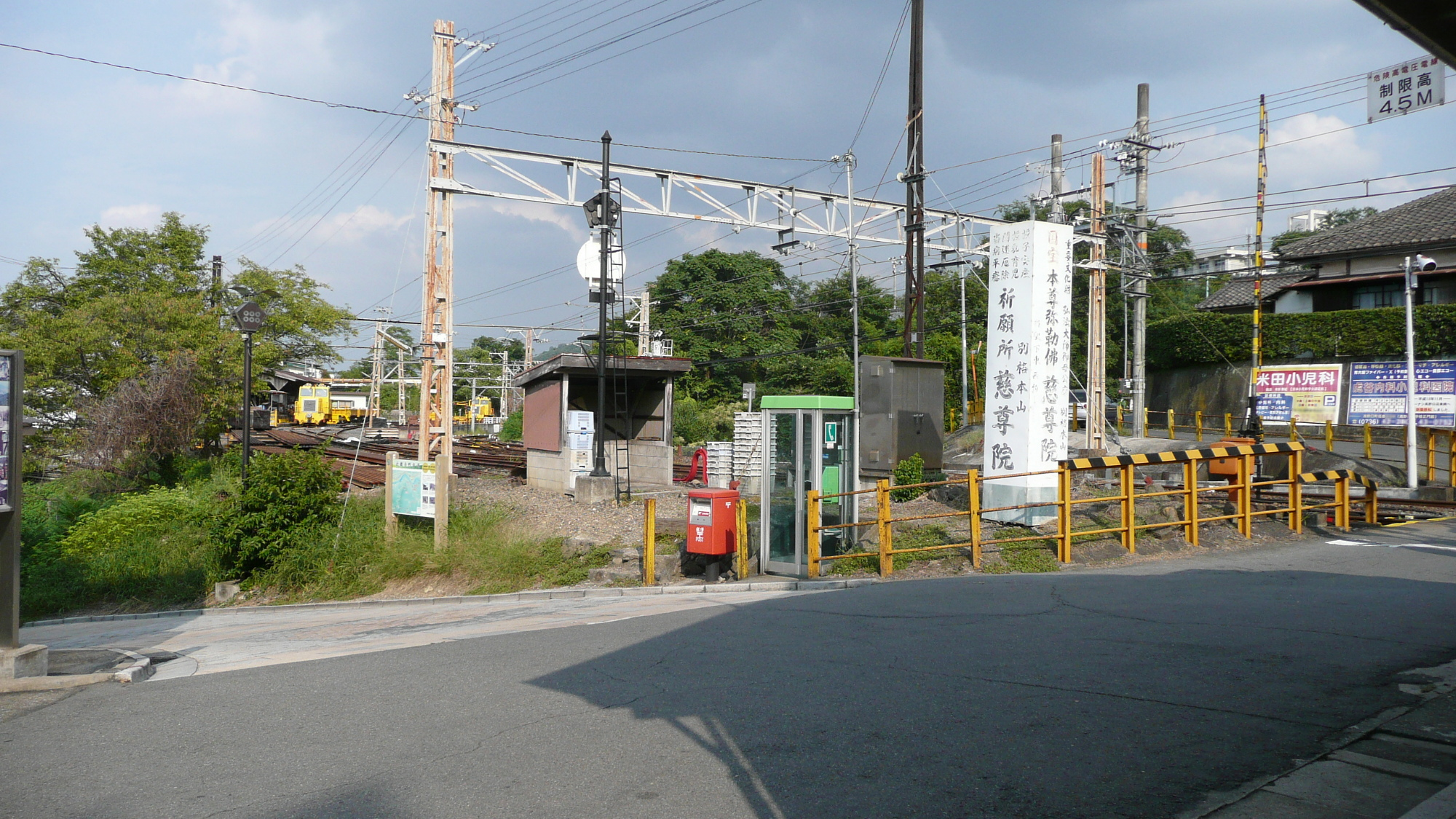 Kudoyama Station plaza,Nankai Ekectric Railway.